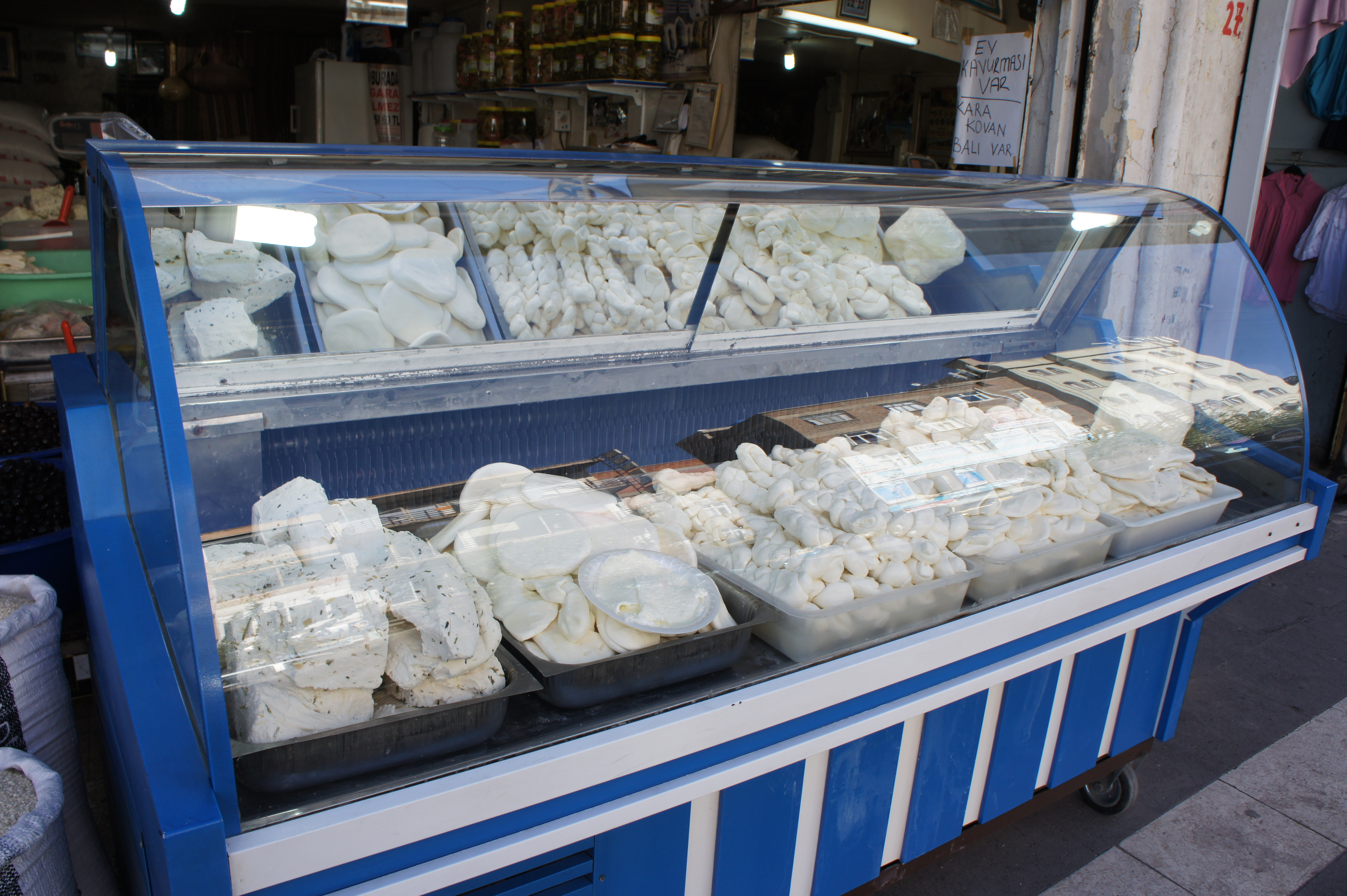 Kurdî: Penêrfiroshî, Amed.